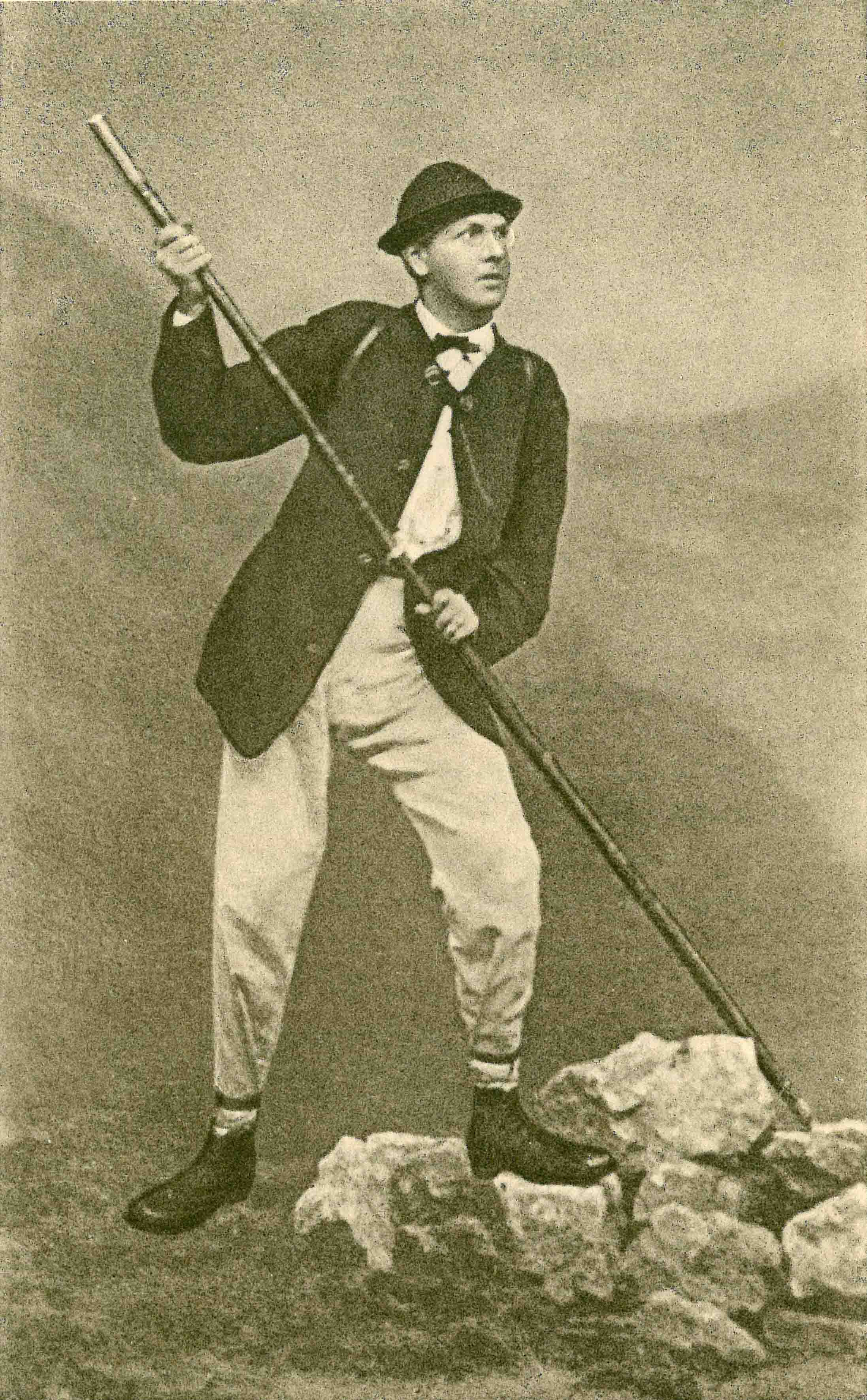 The Alpinist Hermann von Barth (1845-1876)